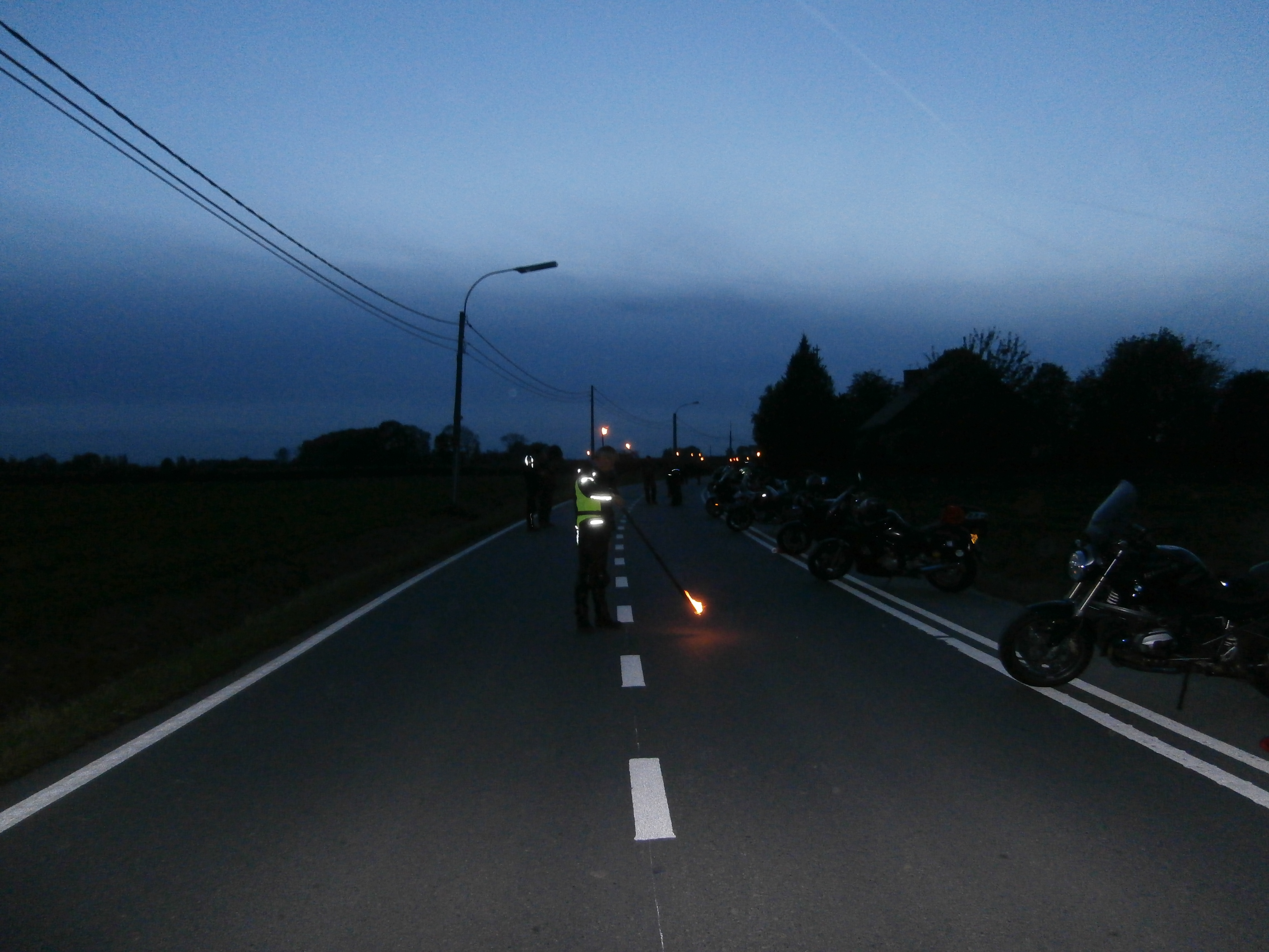 Dutch Veteran Motorcyclist at Lichtfront 2014